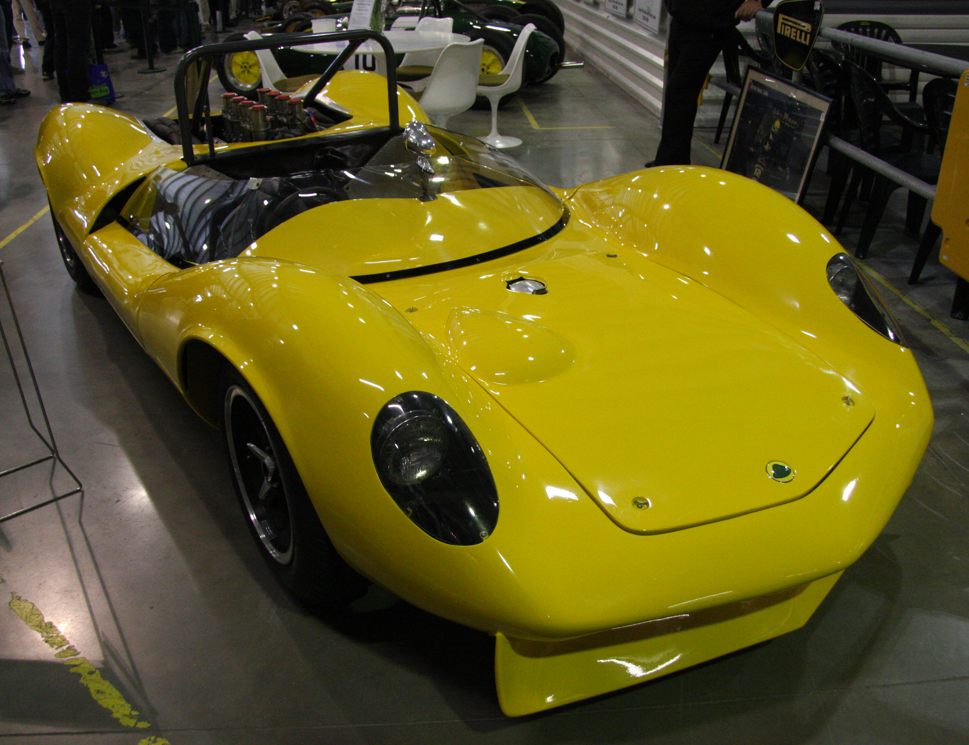 1965 Lotus Type 30 Chassis No S2 09 (of 10) Lotus 60th Celebration